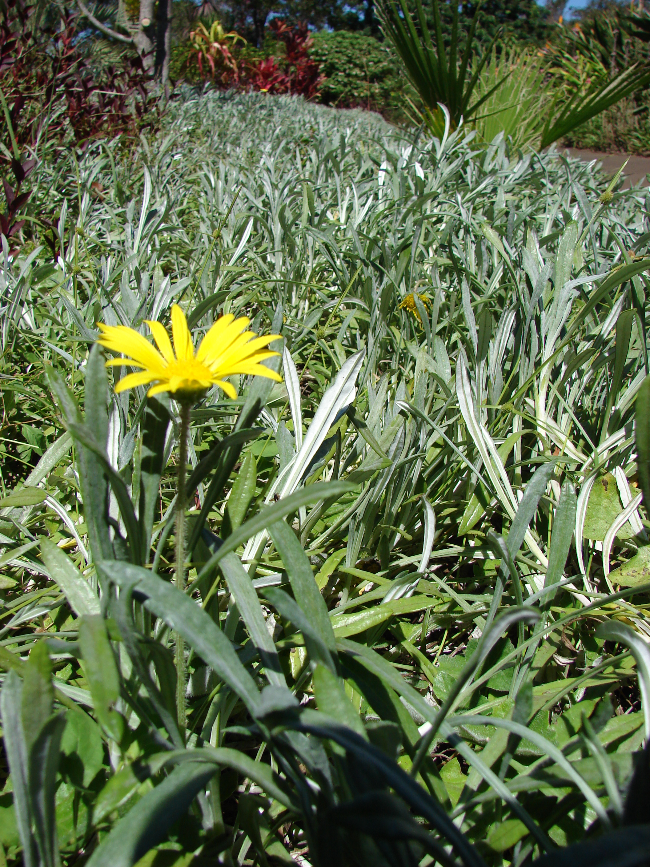 Gazania rigens var. leucolaena (flowers and leaves). Location: Maui, Enchanting Floral Gardens of Kula